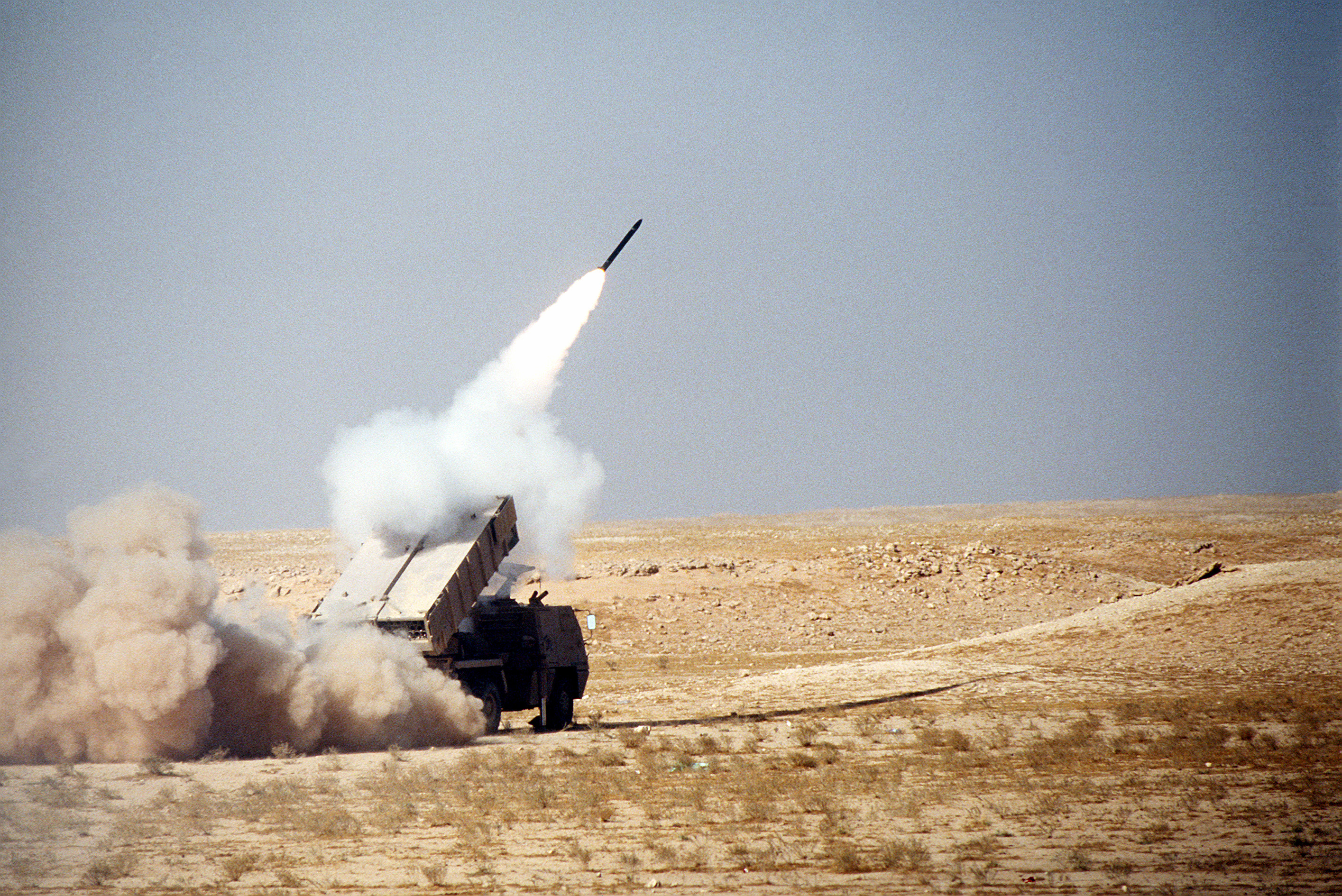 An Avibras ASTROS-II SS-30 rocket is launched from an ASTROS SS-30 multiple rocket system mounted on the back of a Tectran 6x6 AV-LMU truck. The display is part of a demonstration of Saudi Arabian equipment taking place during Operation Desert Shield.